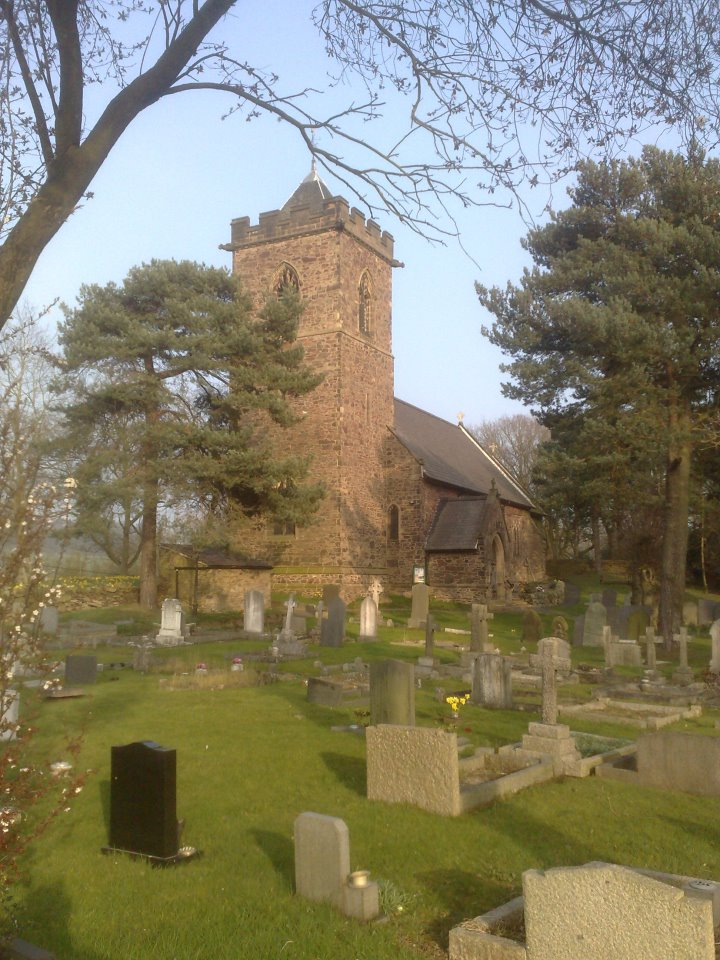 The Church of Saint James the Greater, Oaks in Charnwood. The original church was consecrated on 18th June 1815, the day on which the Battle of Waterloo took place.